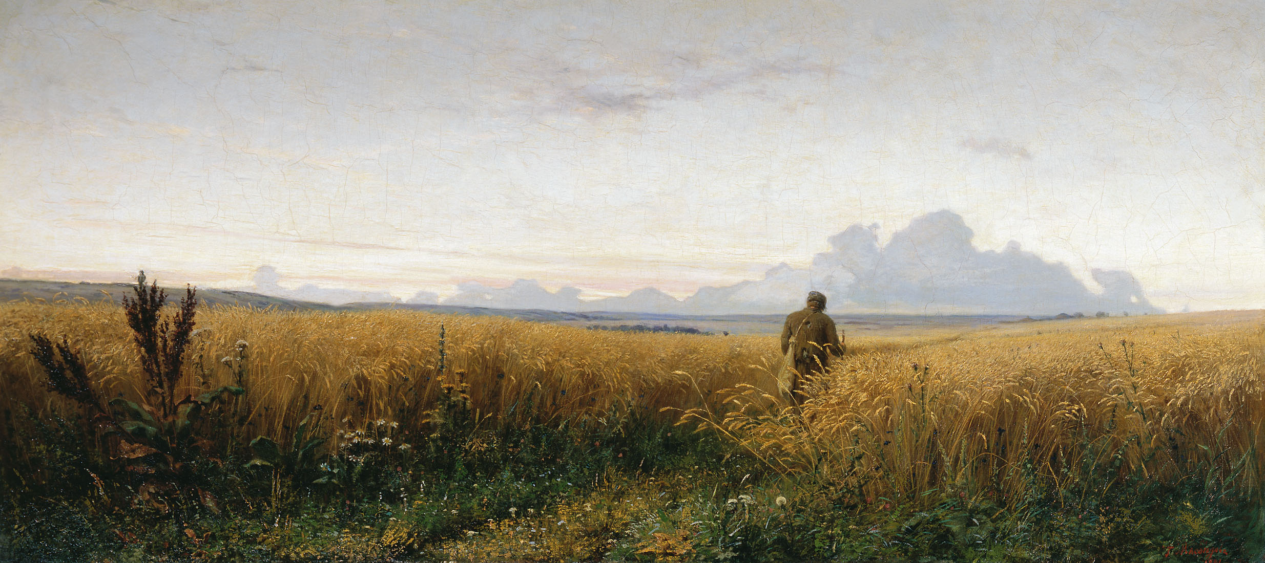 The Road in the Rye